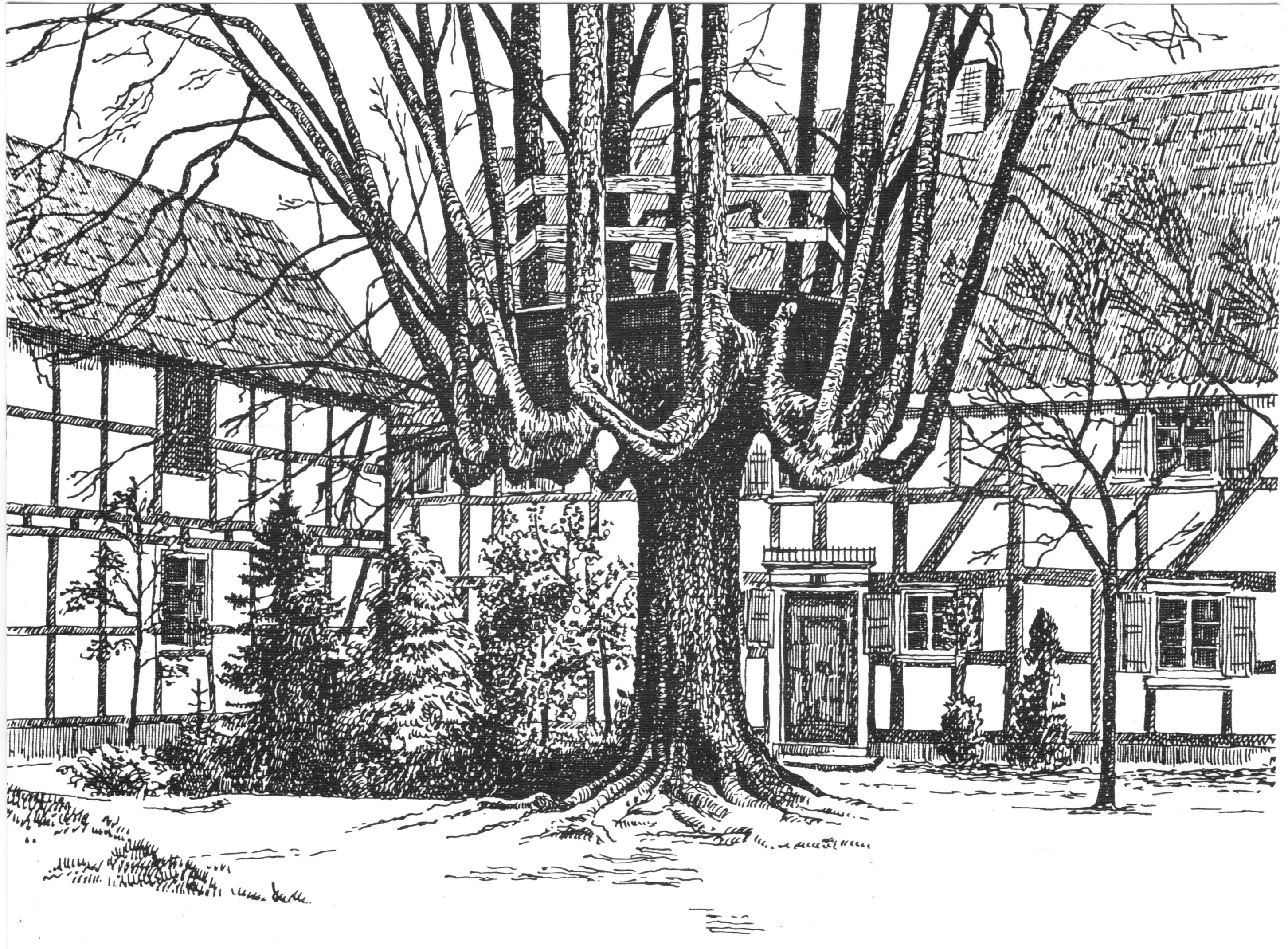 Coffee drinker linden in Distelkamp